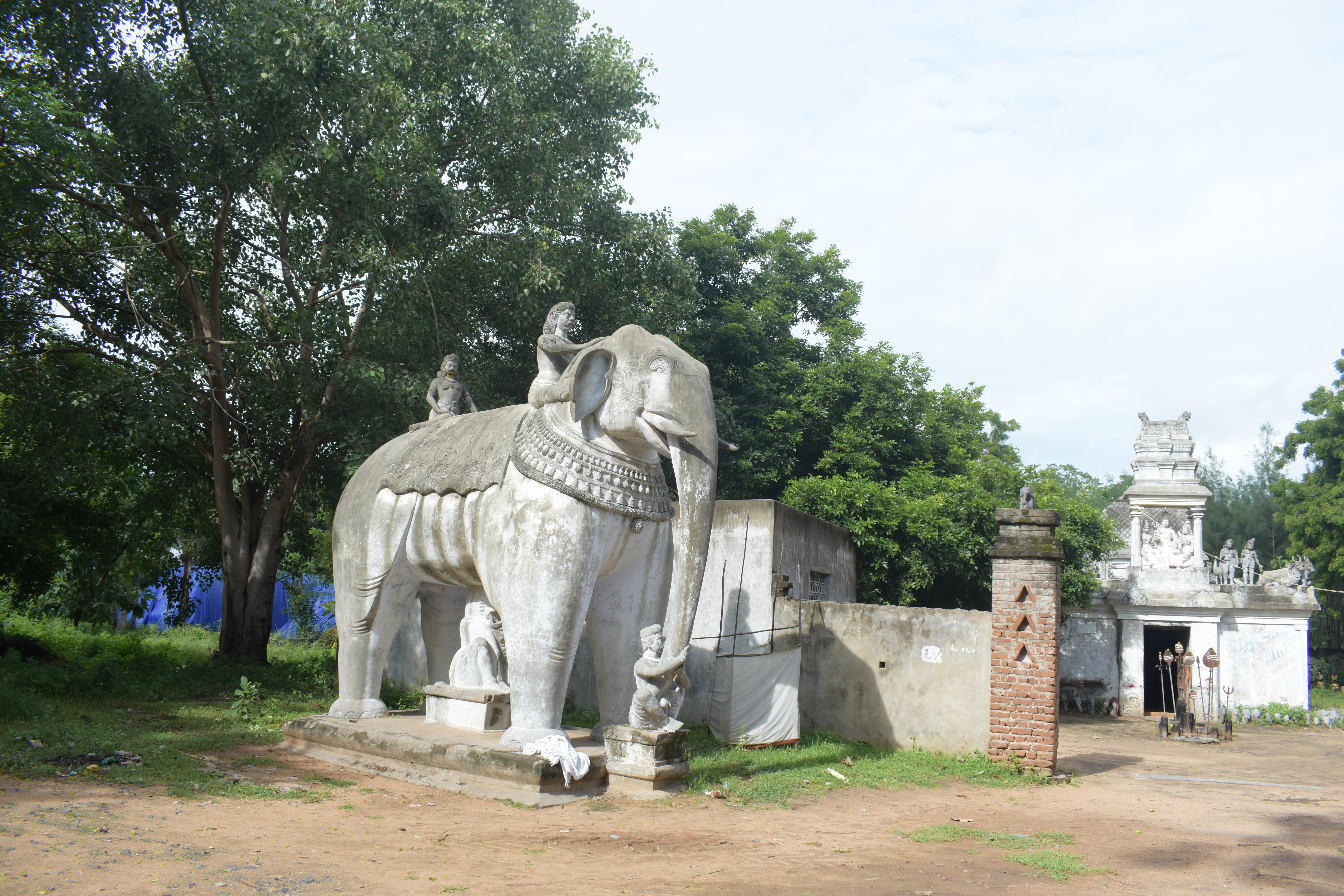 Elephant statue Eeswarakandanalloor Arikarapuththira Aiyanaar temple